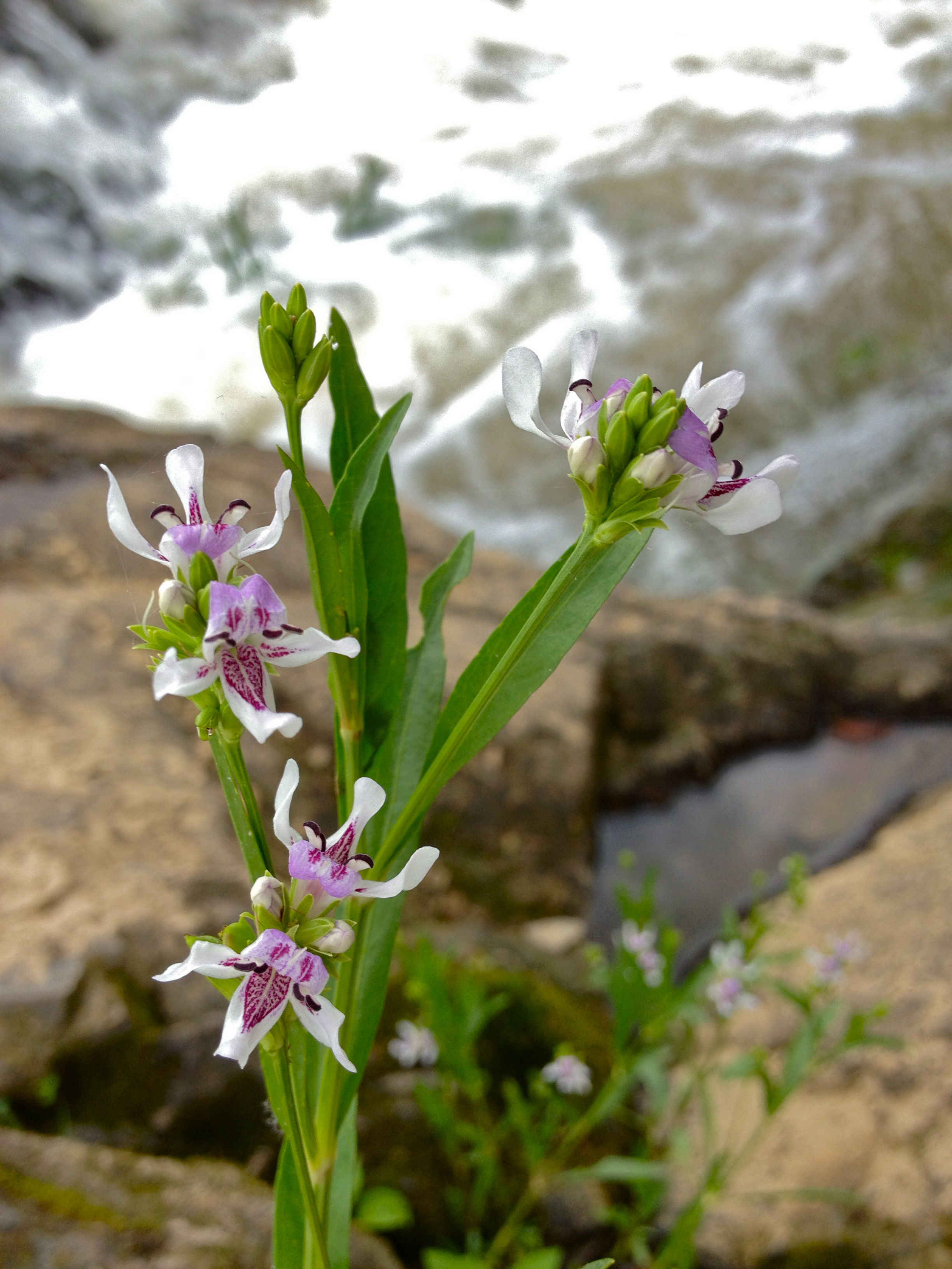 Photo of Justicia americana in flower. This is a native plant growing wild along the Potomac Heritage Trail, in Scotts Run Nature Preserve, Fairfax county Virginia, USA. This species is a member of the Acanthaceae family.